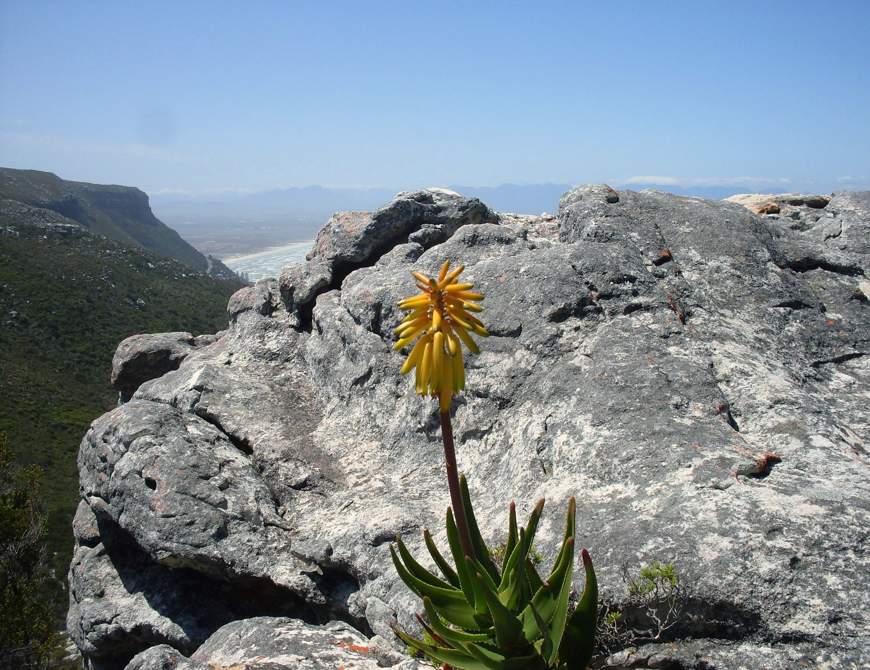 Aloe commixta. Rambling Aloe endemic to Cape Peninsula mountains within Cape Town.